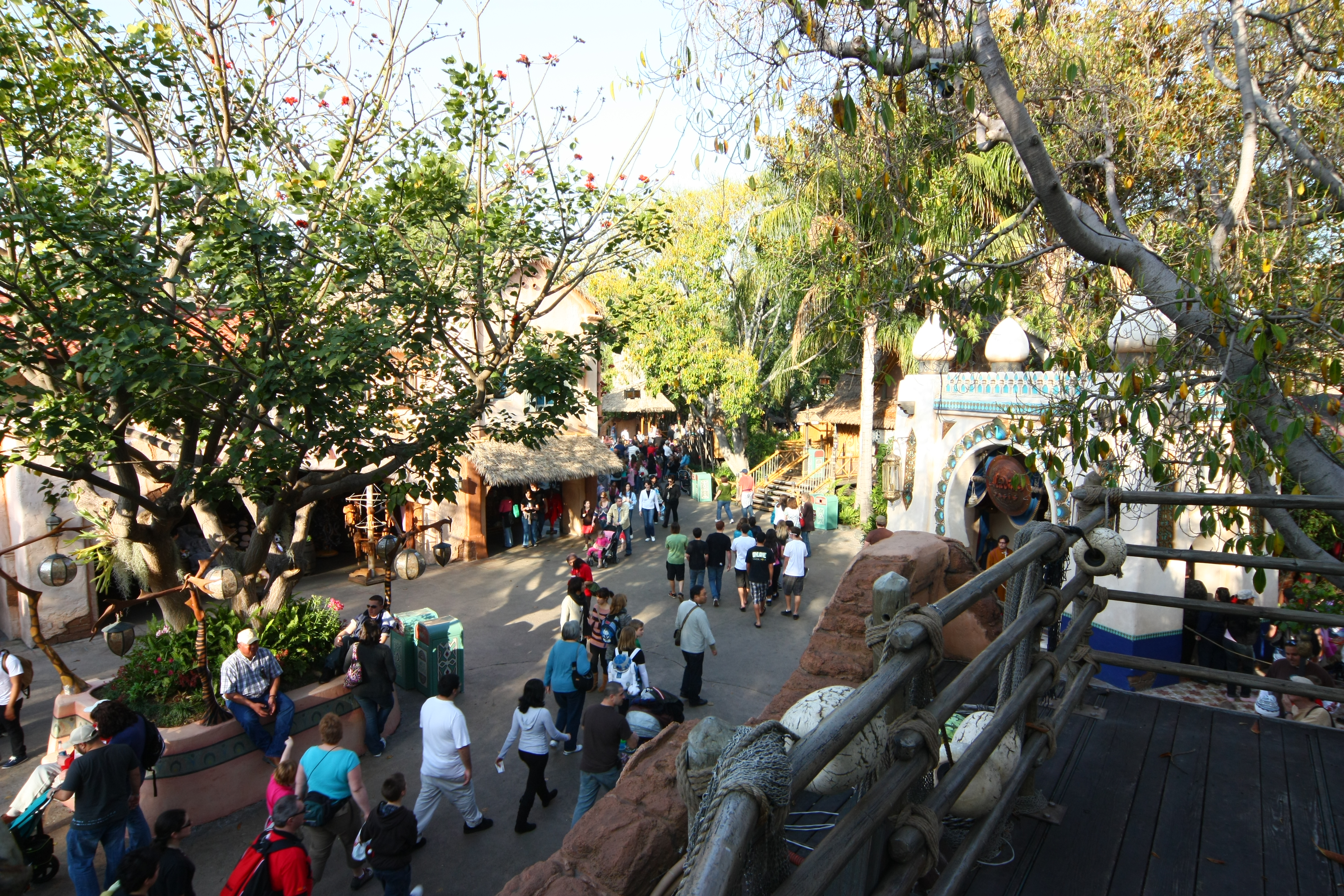 Adventureland at Disneyland Park as seen from the upper level of the Jungle Cruise Queue.